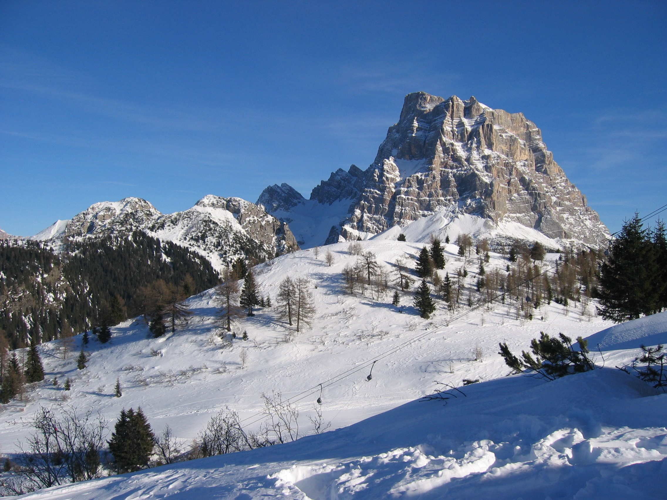 Top of Mount pelmo, Dolomites (Italy)